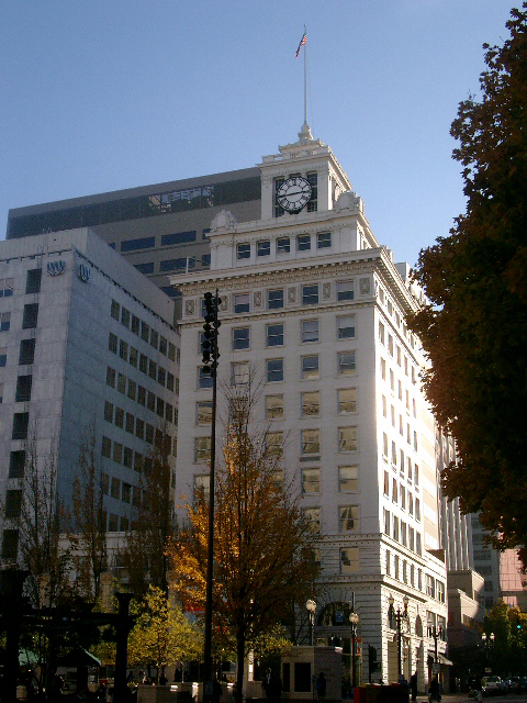 The Jackson Tower in Portland, Oregon. The building is listed on the National Register of Historic Places under its historic name, Journal Building. Taken by myself, Ajbenj.